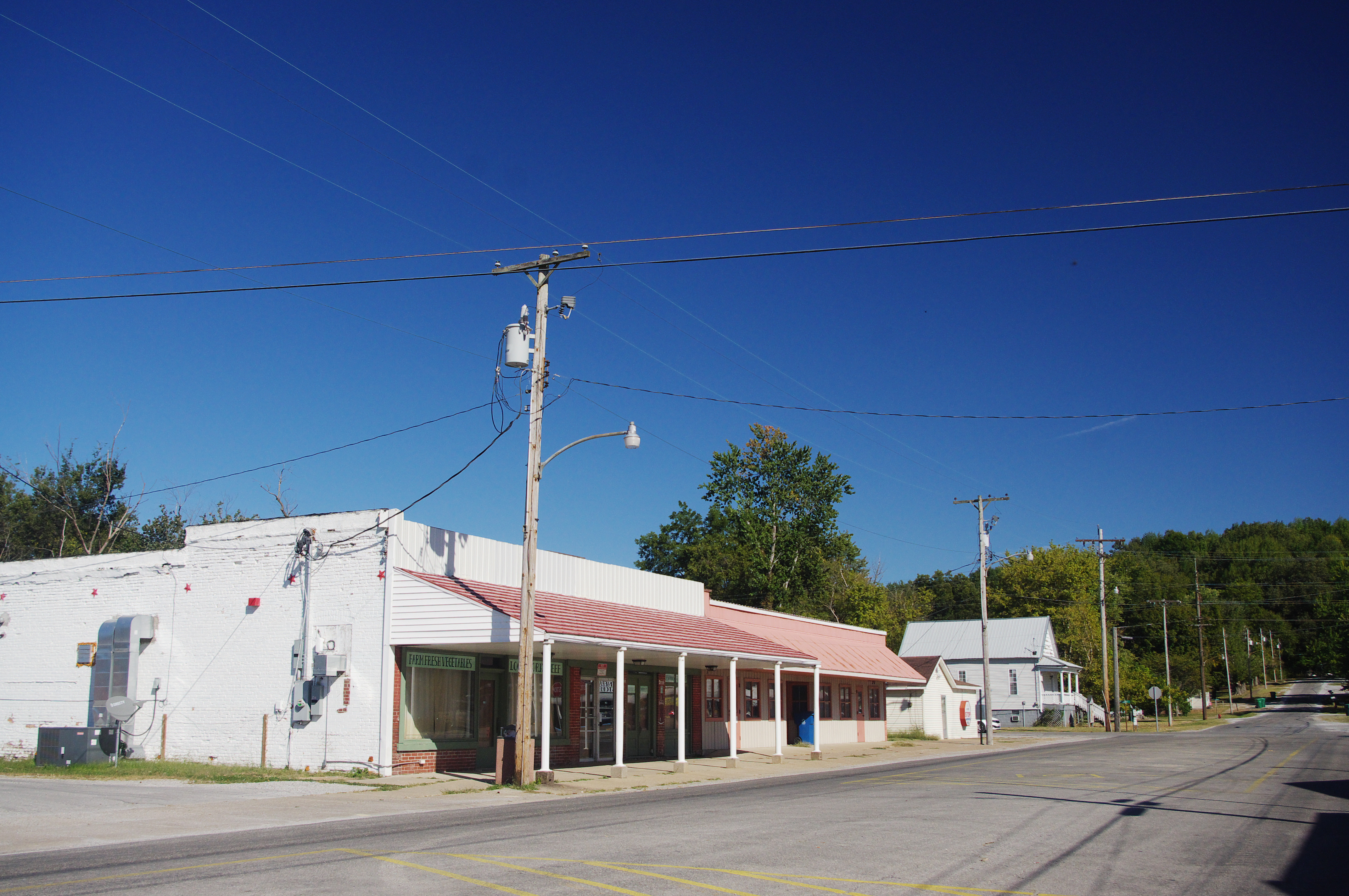 Buildings along Commercial Avenue in Pulaski, Illinois, United States.